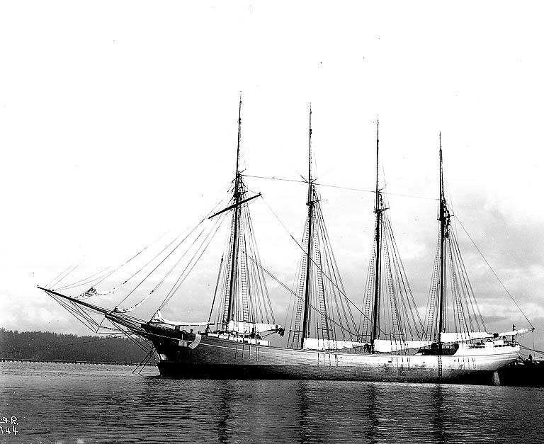 Schooner MINNIE A CAINE anchored in harbor, Asahel Curtis Photo Company Collection no. 482